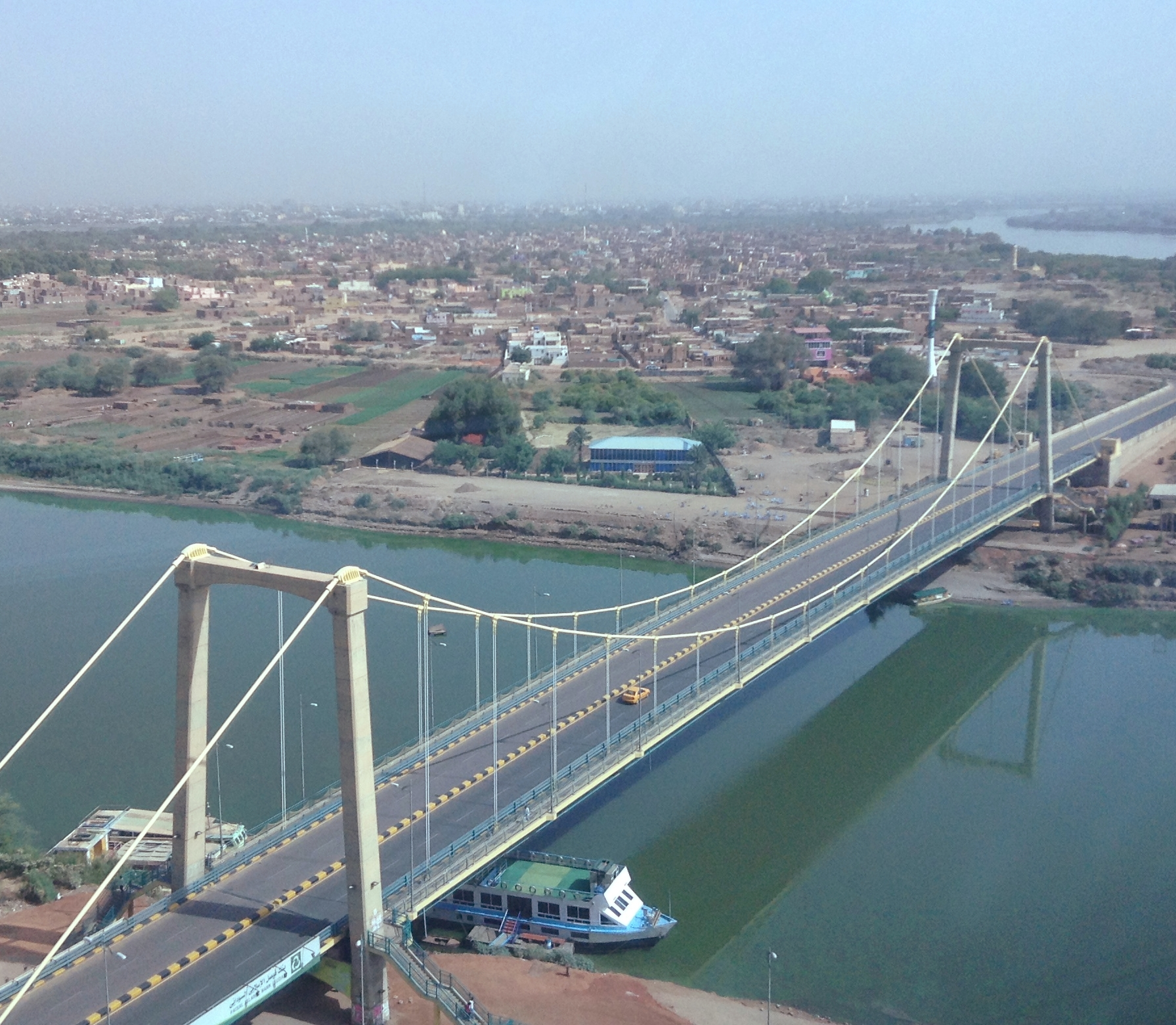 Nile river bridge 3